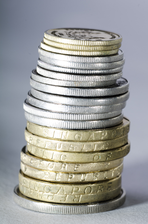 Current usable Singapore coins valued from 5 cents to a dollar.